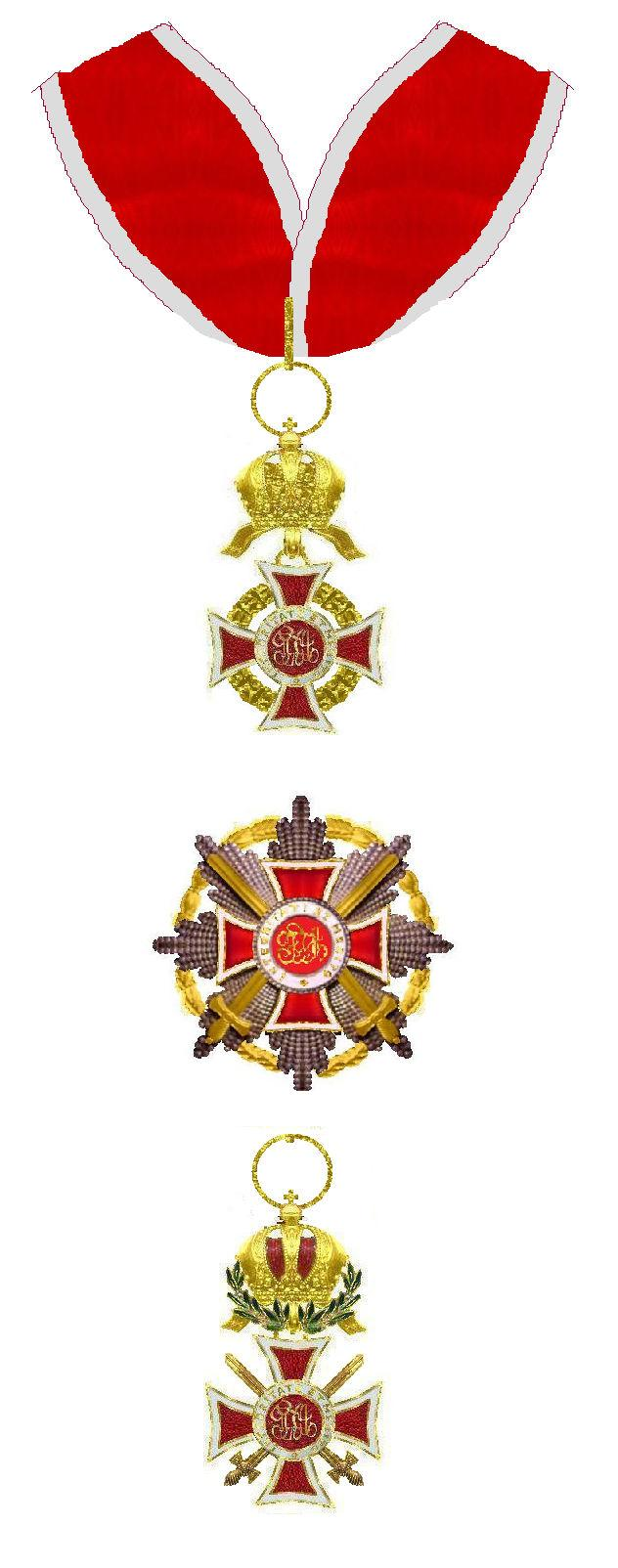 Order of Leopold, Austria Commander with Lower War Decoration Star of a Grand Cross with War Decoration and Swords Grand Cross with Swords 1917